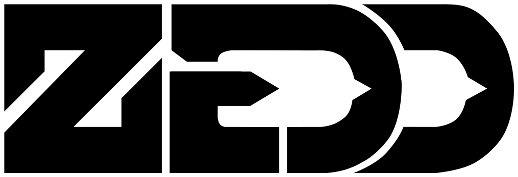 Logo of the german dj and producer